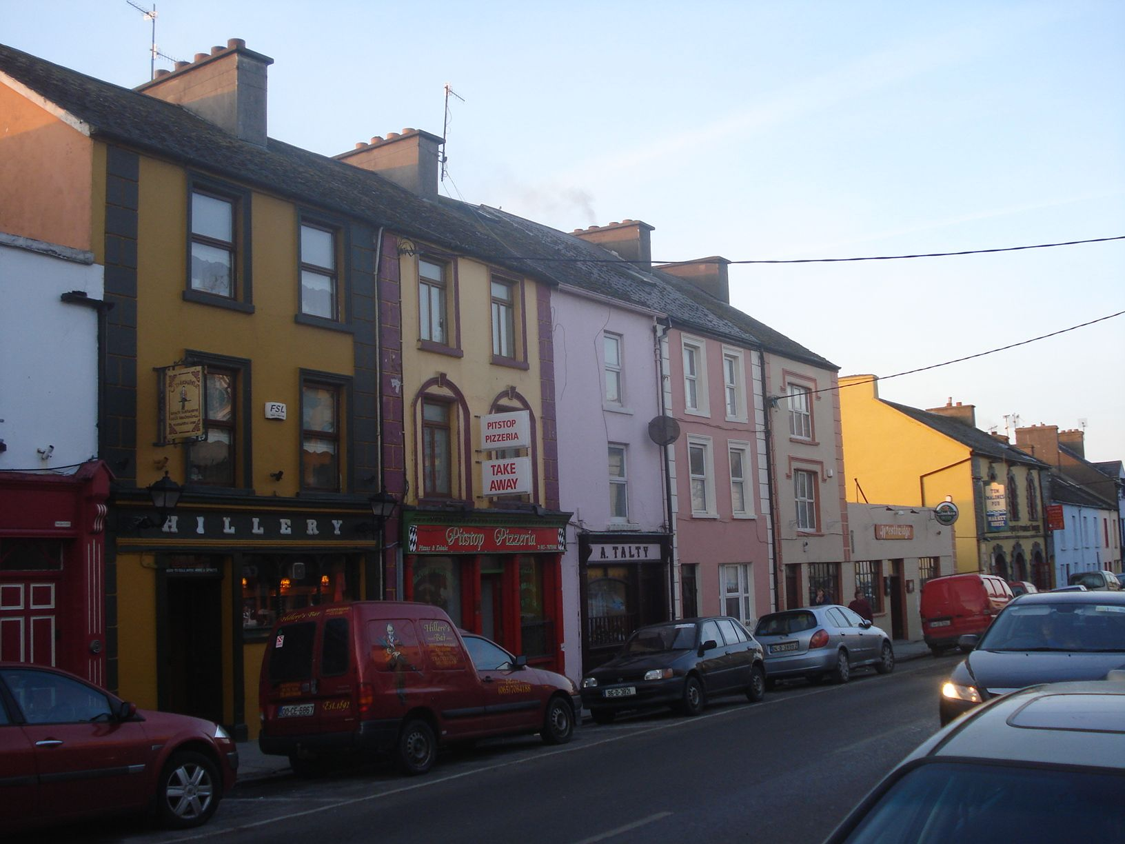 Colourful shops in Main Street, Milltown Malbay. Visibele is Hillery's Pub, owned by the Hillery family. Dr. Hillery treated wounded IRA-soldiers upstairs unknown to the English. Dr. Patrick Hillery, former president of Ireland was born here.